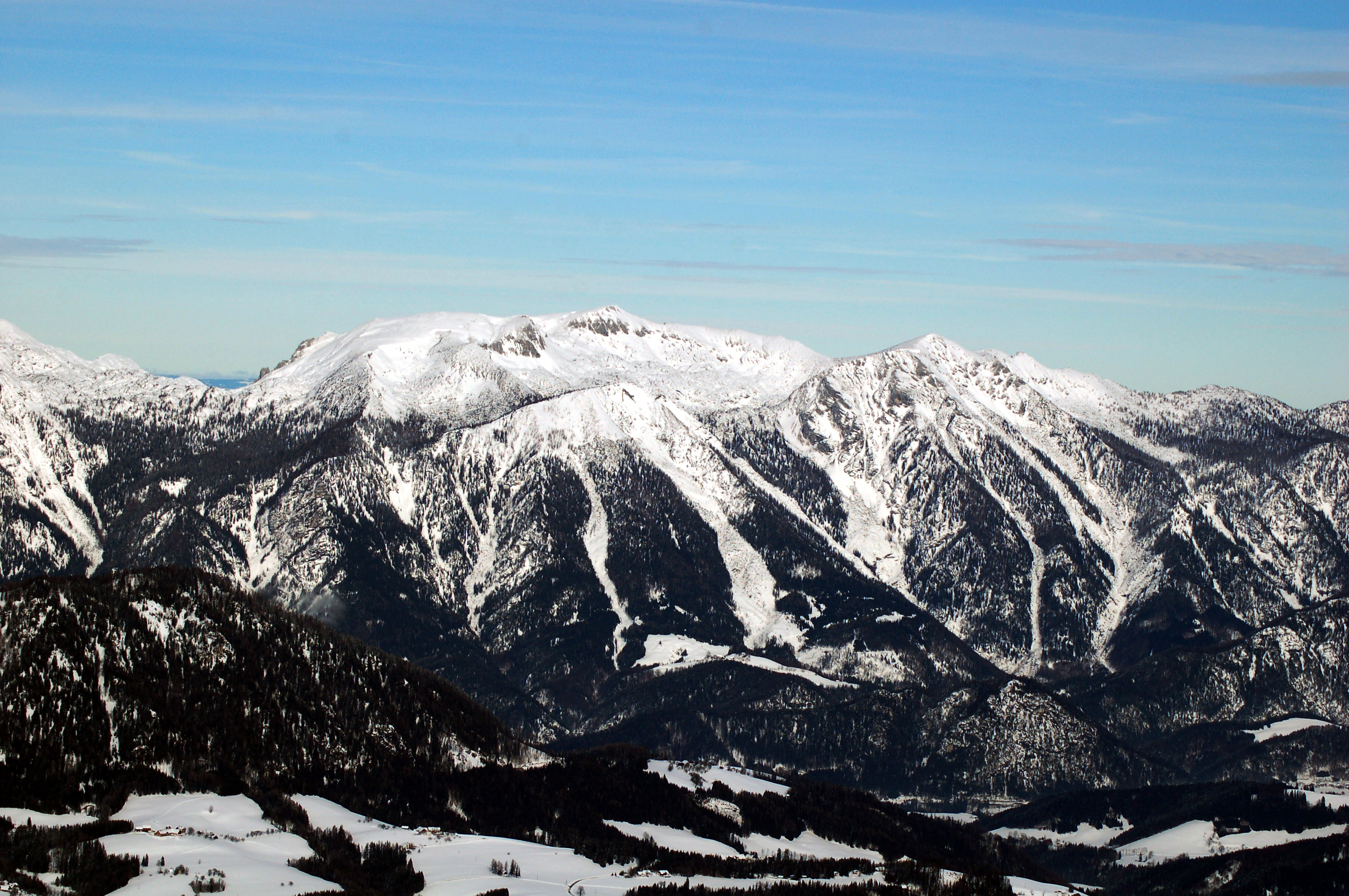 Hoher Nock (1963m), a mountain in the Sengsengebirge in Upper Austria, as seen from Hutterer Höss heading NE.